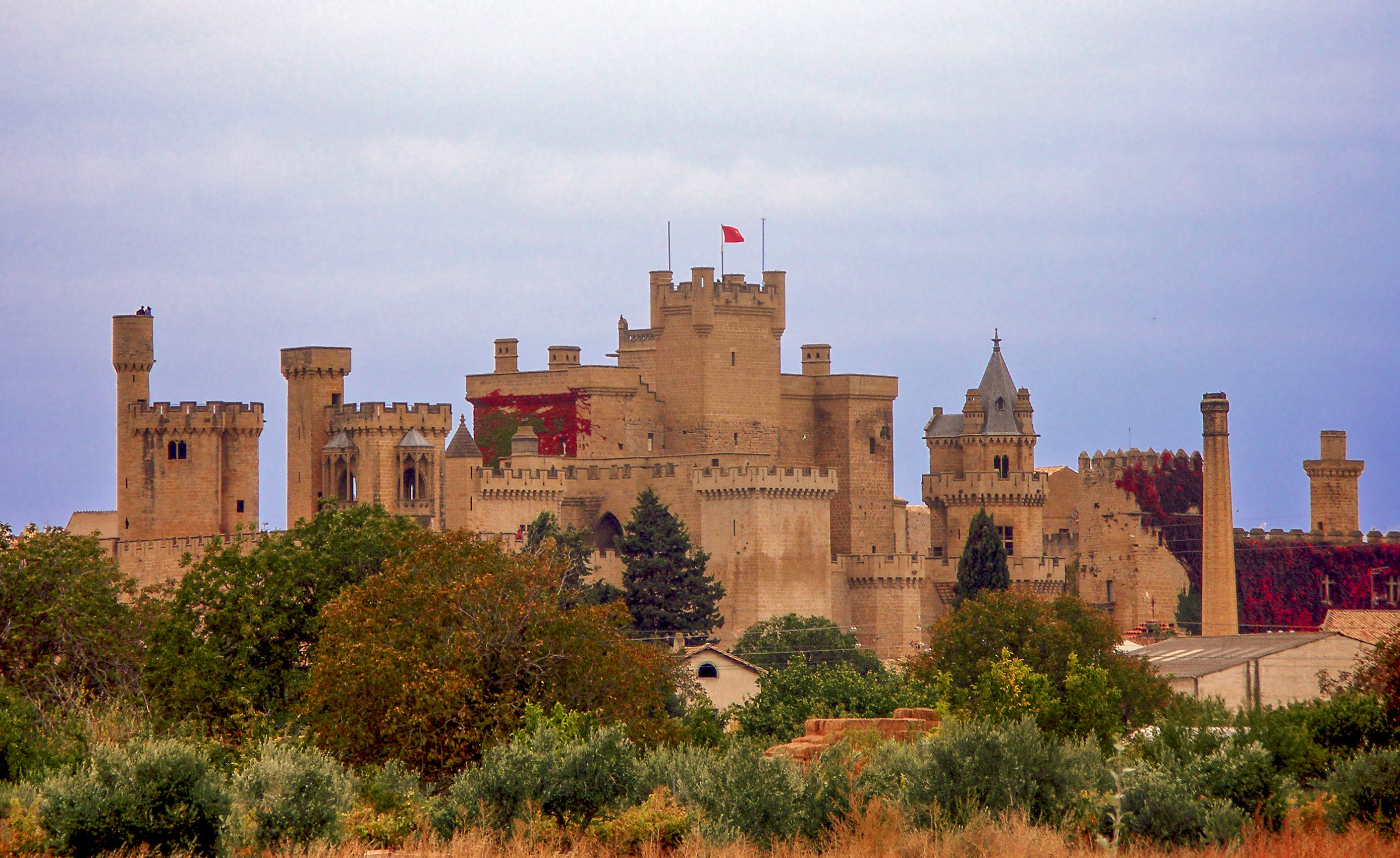 Palace of Olite. Residence of the King and Queen of Navarre.